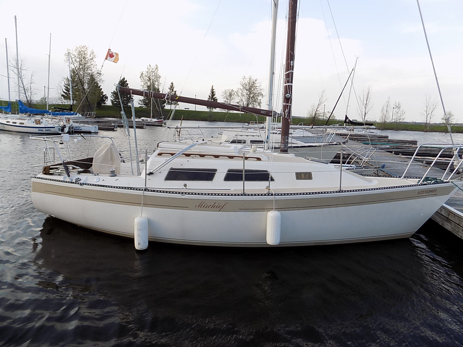 An Aloha 27 sailboat named Mischief.